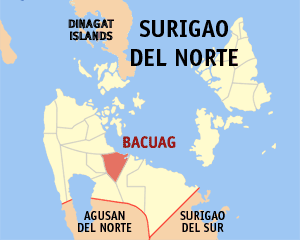 Map of the Surigao del Norte showing the location of Bacuag